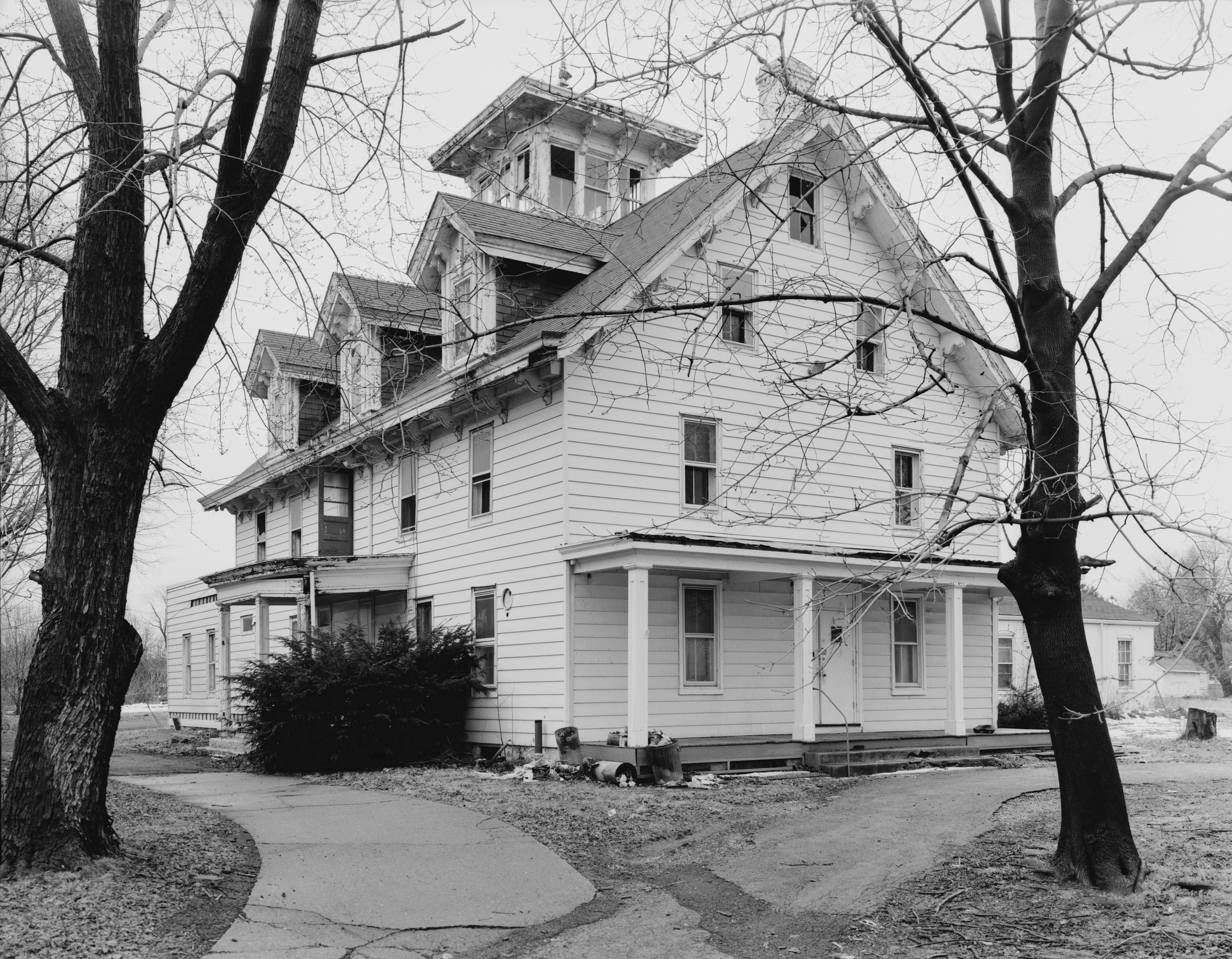 Lobdell Estate, aka Minquadale Home, on the NRHP since June 4, 1973. Demolished by 2002. At the west end of Fernwood Ave. in Minquadale, south of Wilmington, Delaware.